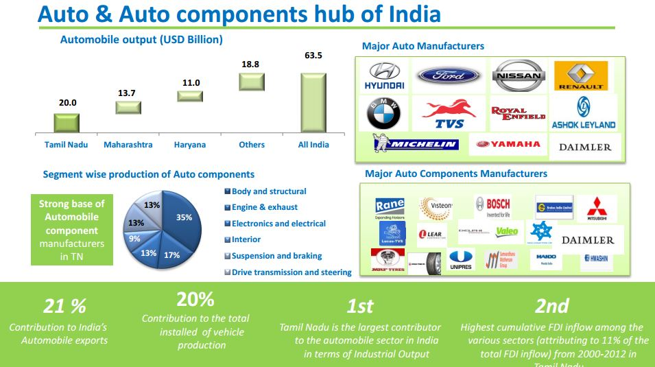 Tamil Nadu - Automobile Hub of India